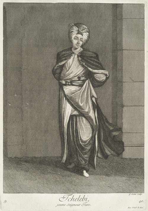 Illustrations of Ottomans by Jean-Baptiste Vanmour, 1707